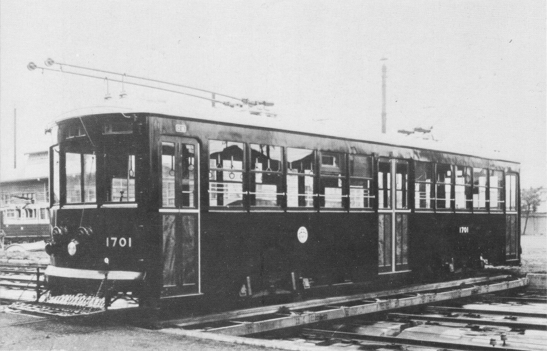 Osaka City Tram 1701.